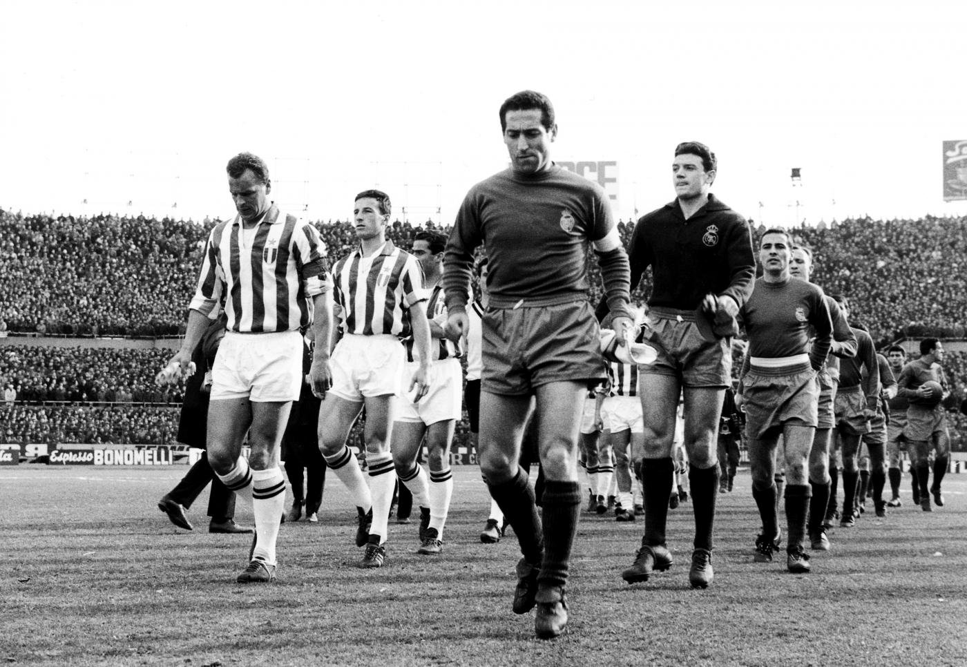 Turin (Italy), Communal Stadium, February 14, 1962. Juventus F.C. and Real Madrid C.F. teams took to the field for the 1st leg of the quarter-final match of the 1961–62 European Cup (0-1). In the foreground the two captains, Juventus' John Charles and Real Madrid's Francisco Gento; in the background, Juventus' Ernesto Castano and Real Madrid's José Araquistáin.